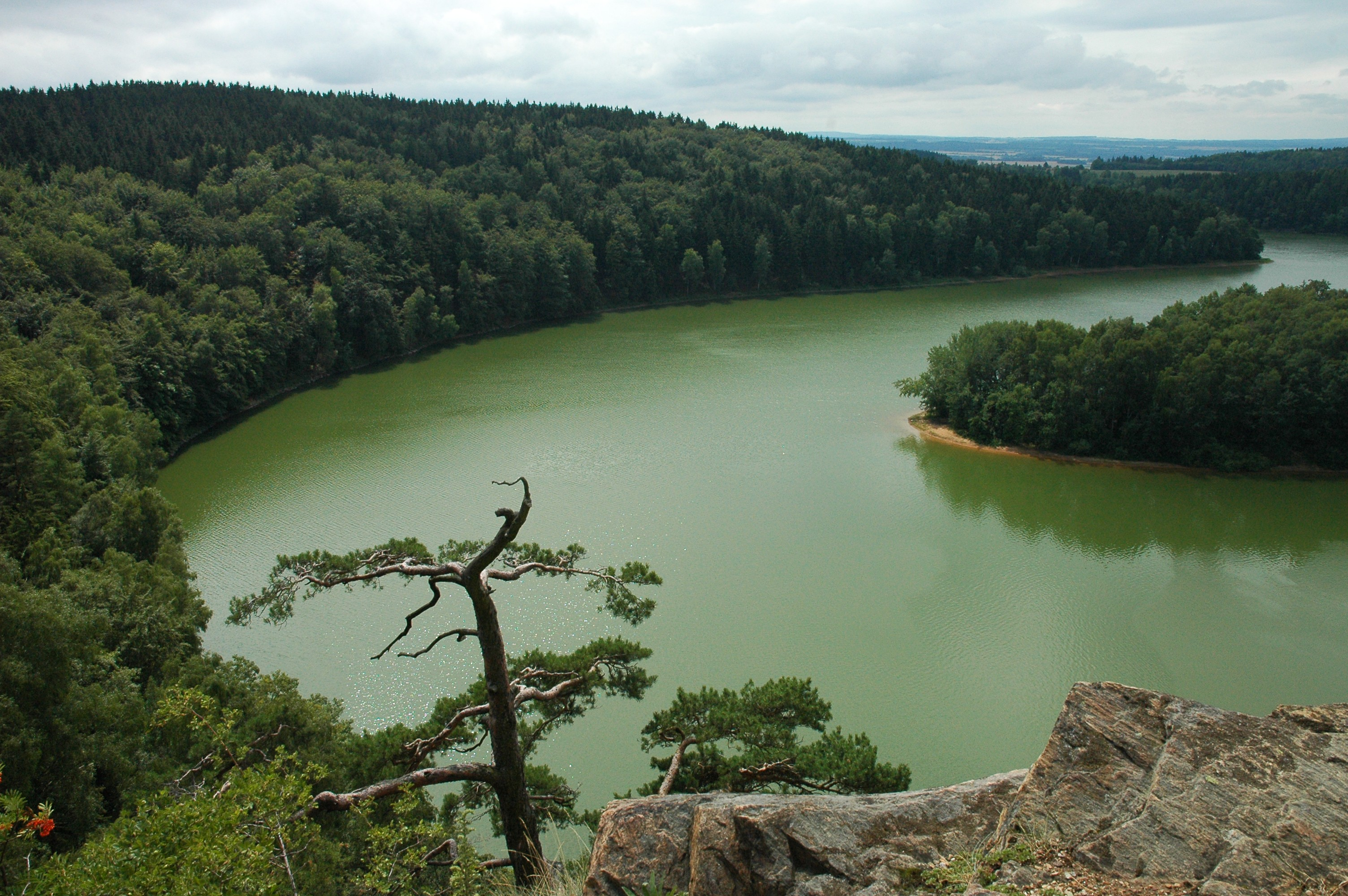 View from castle Oheb to the nature reserve Oheb in Chrudim District, Czech Republic